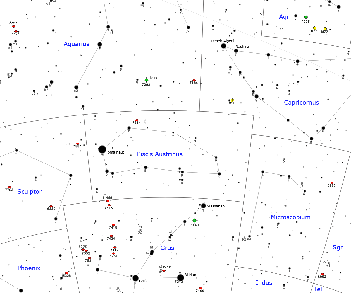 Map of Piscis Austrinus